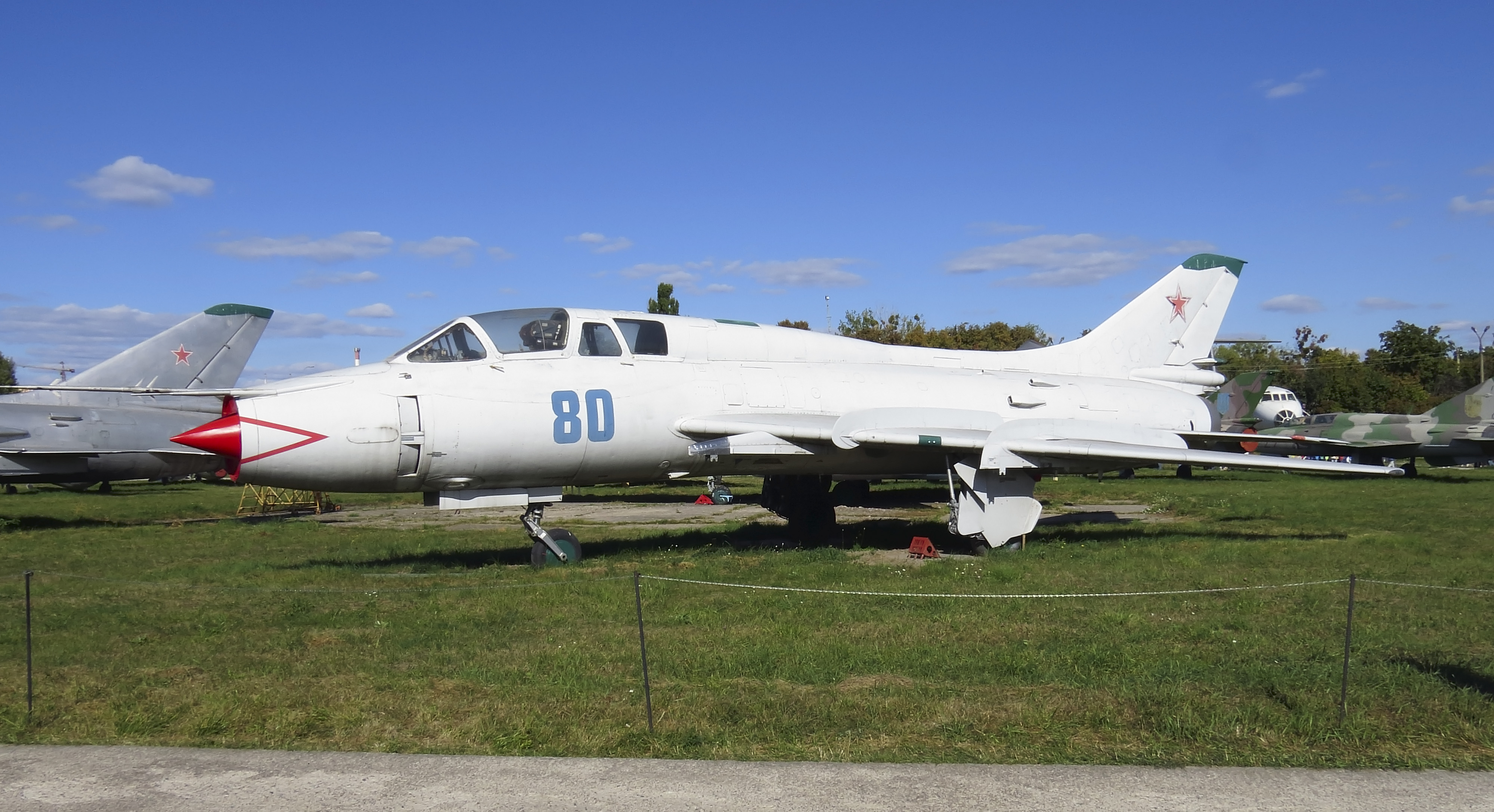 Sukhoi Su-117UM 'Fitter-E' ('Moujik') combat trainer at Ukrainian State Aviation Museum, Kiev